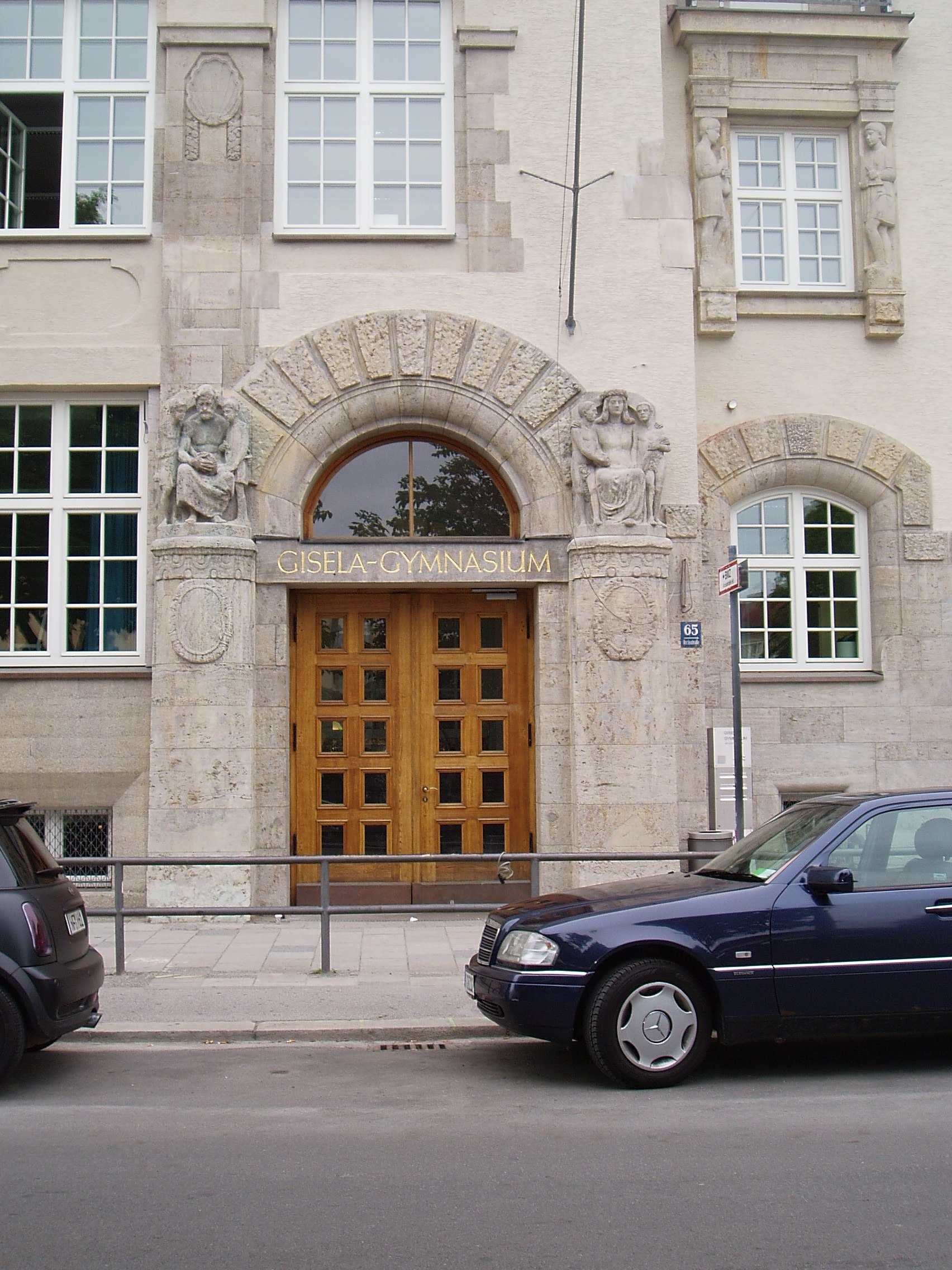 Gisela Gymnasium main entrance